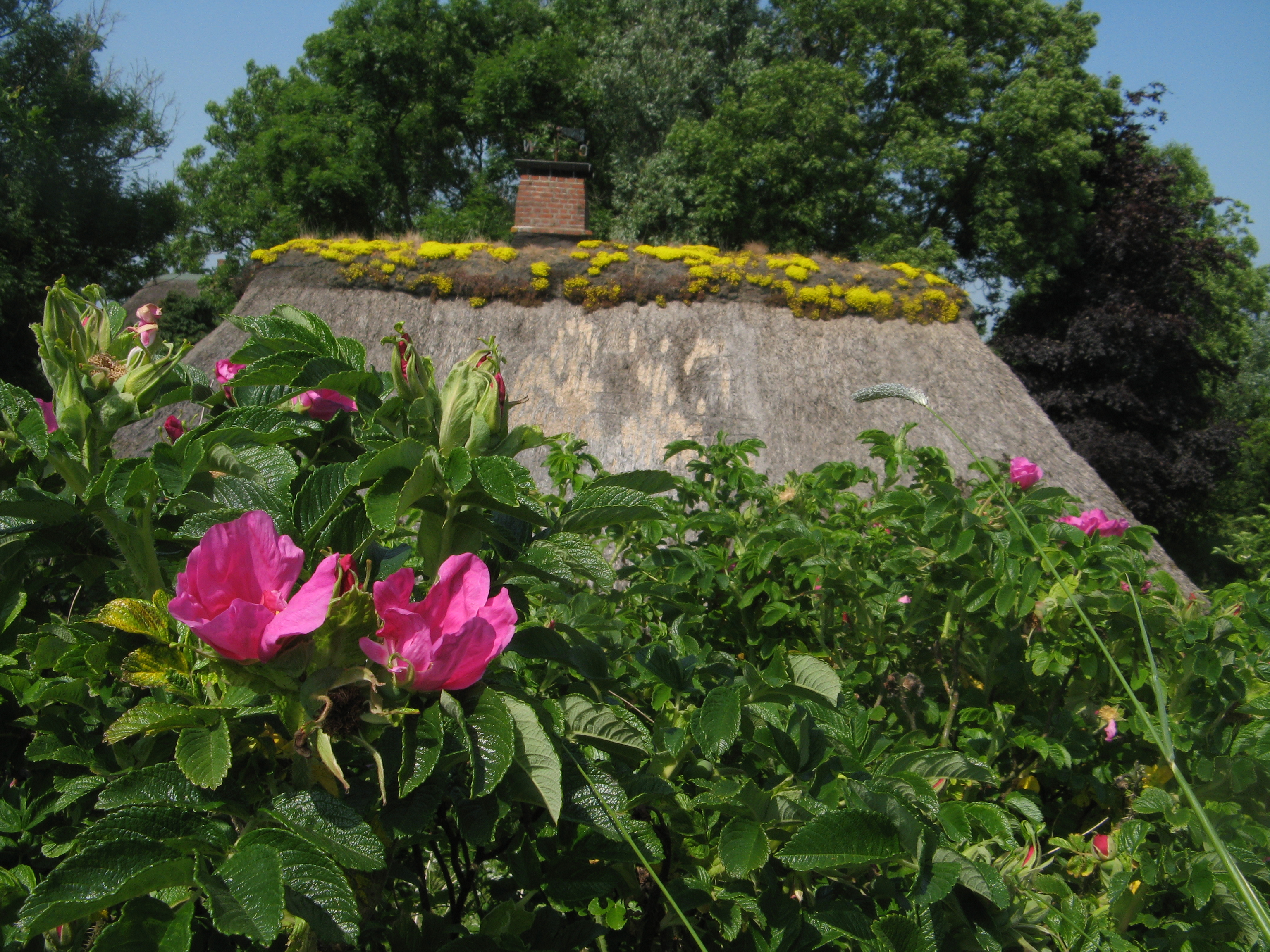 House on the way to Kating, Schleswig-Holstein, Germany